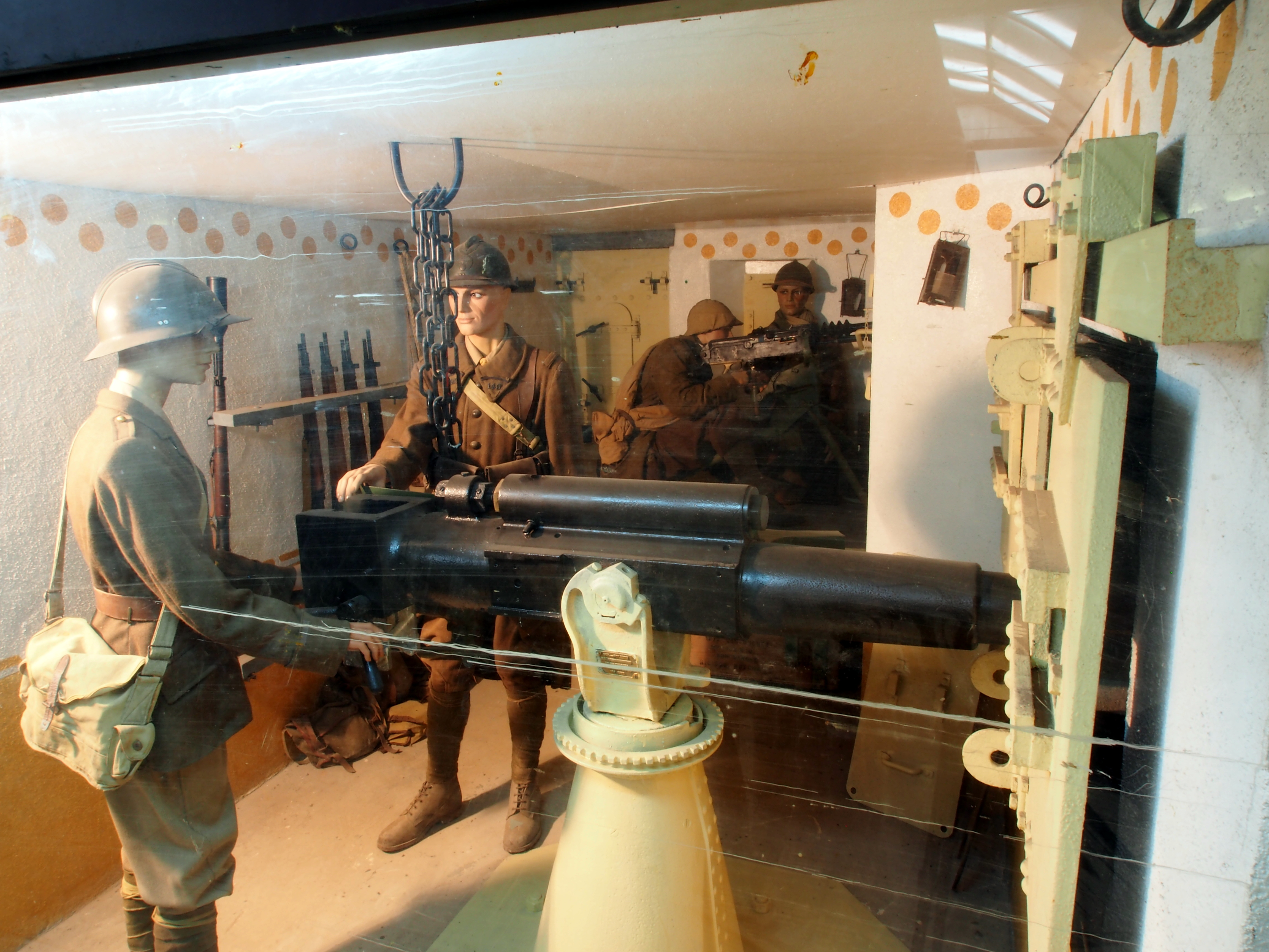 Fort de Fermont and its museum - Fort de Fermont and its museum - Cannon inside a kazemat